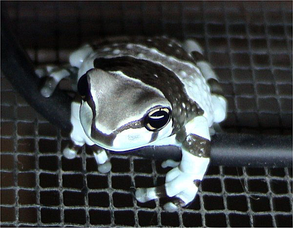 Amazon Milk Frog, Phrynohyas resinifictrix